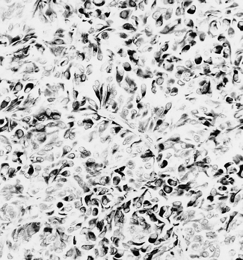 CNS: ASTROBLASTOMA Some cells are reactive for GFAP.